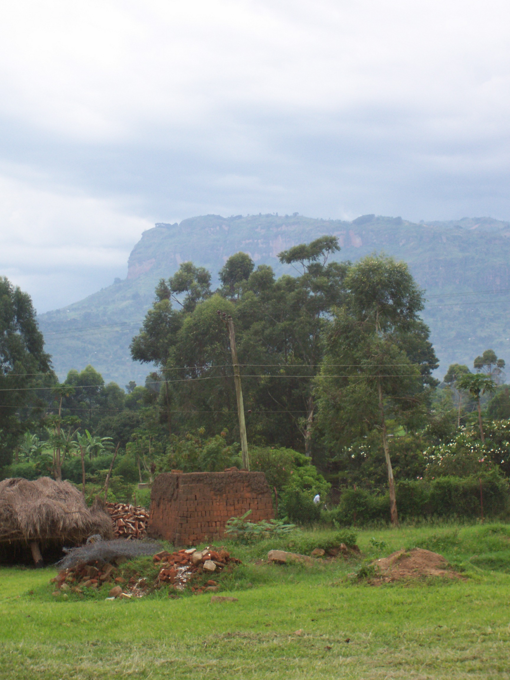 Photo of rural Mbale taken from the grounds of the Pentecostal Theological College at Mbale.